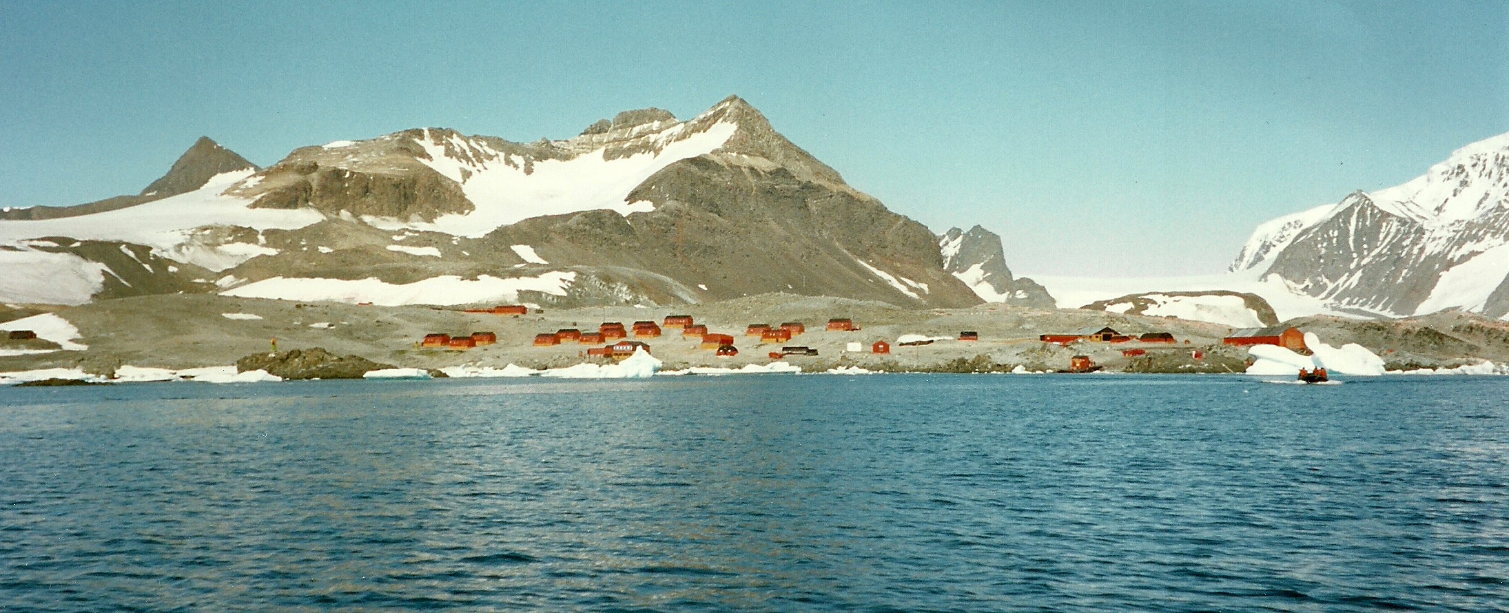 MS Columbus Caravelle